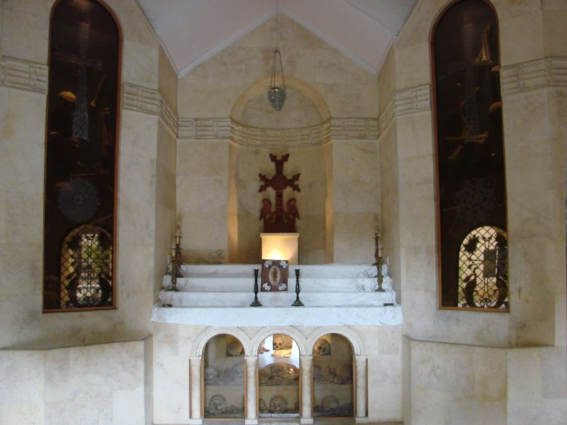 Inside the memorial chapel to the Armenian Genocide at the The Catholicossate of the Great House of Cilicia, seat of the Catholicos of Cilicia of the Armenian Apostolic Church in Antelias, Lebanon. Bones of Armenian victims of the Genocide recovered from the Syrian desert.